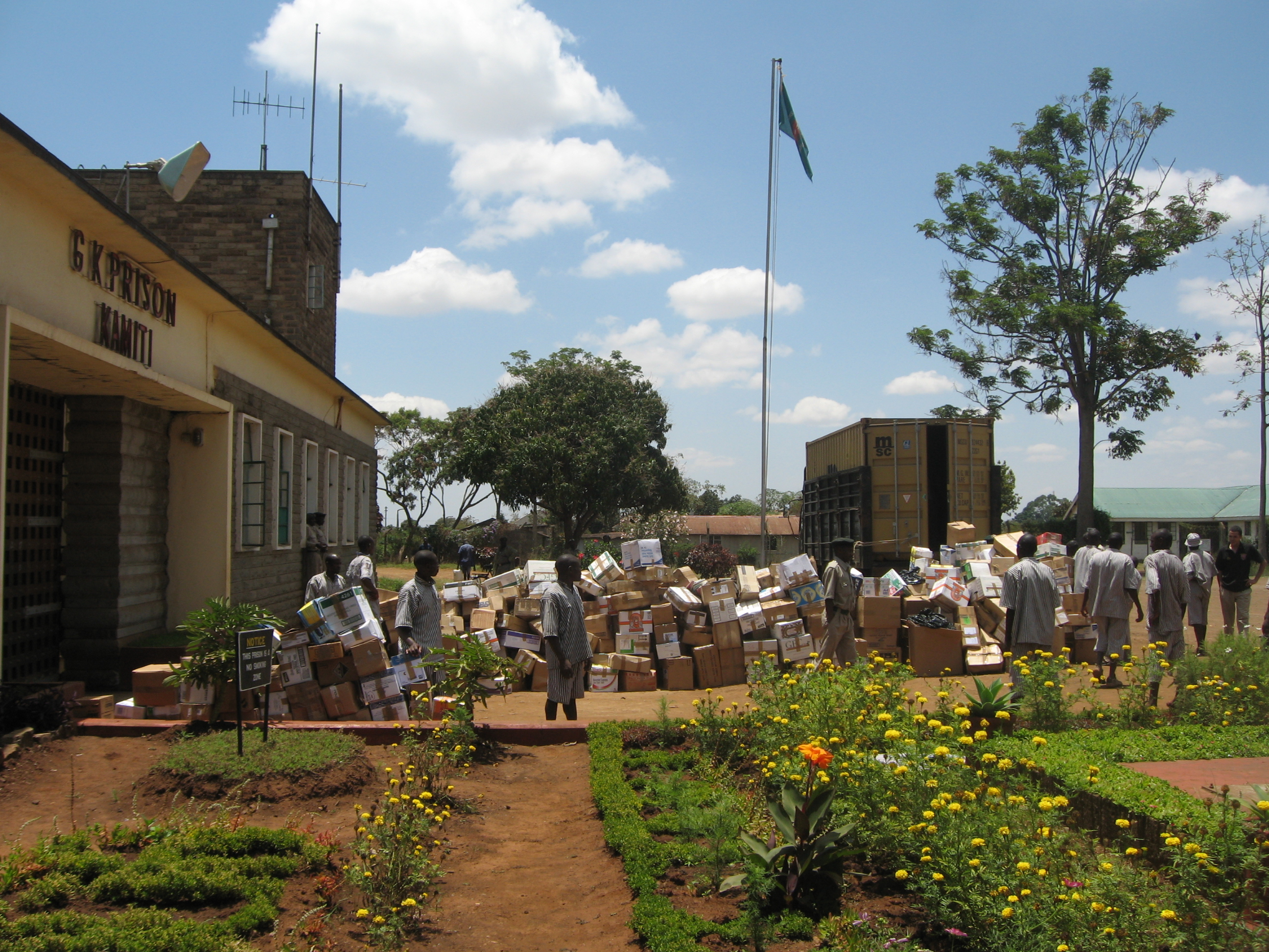 A consignment of donated books from the UK arriving at Kamiti Prison, Kenya